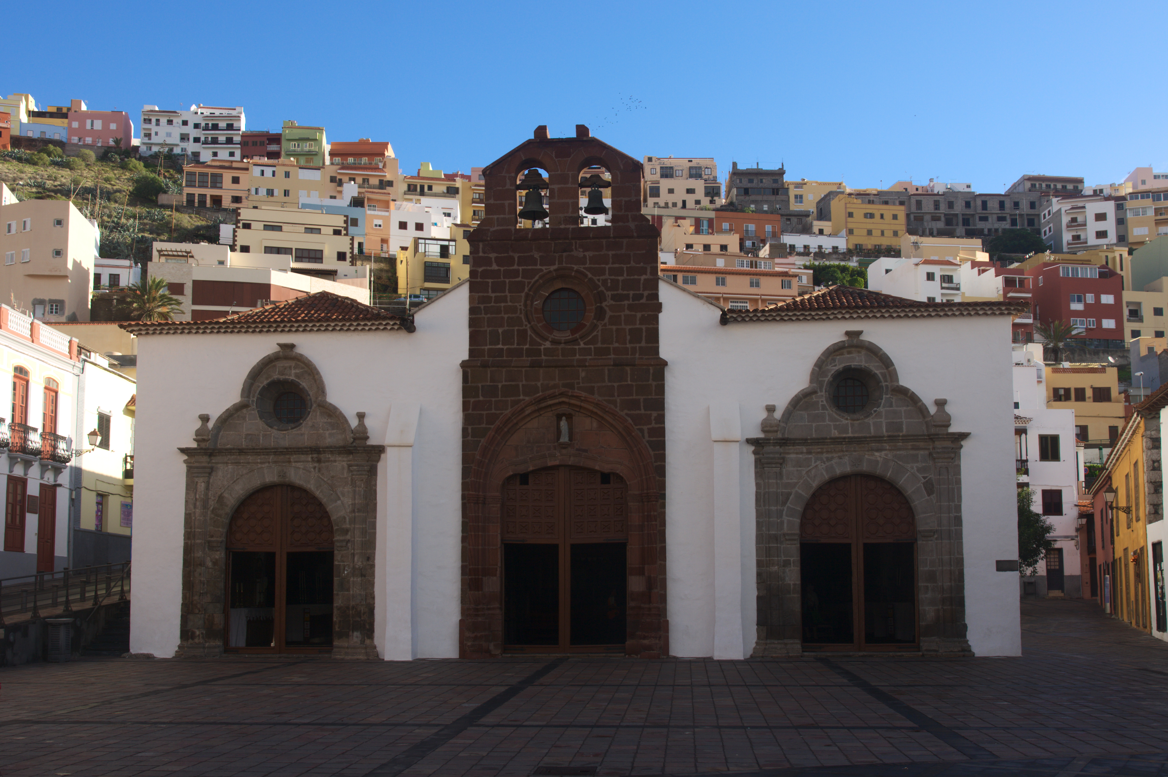 Church of Our Lady of the Assumption. San Sebastián de la Gomera, La Gomera, Spain